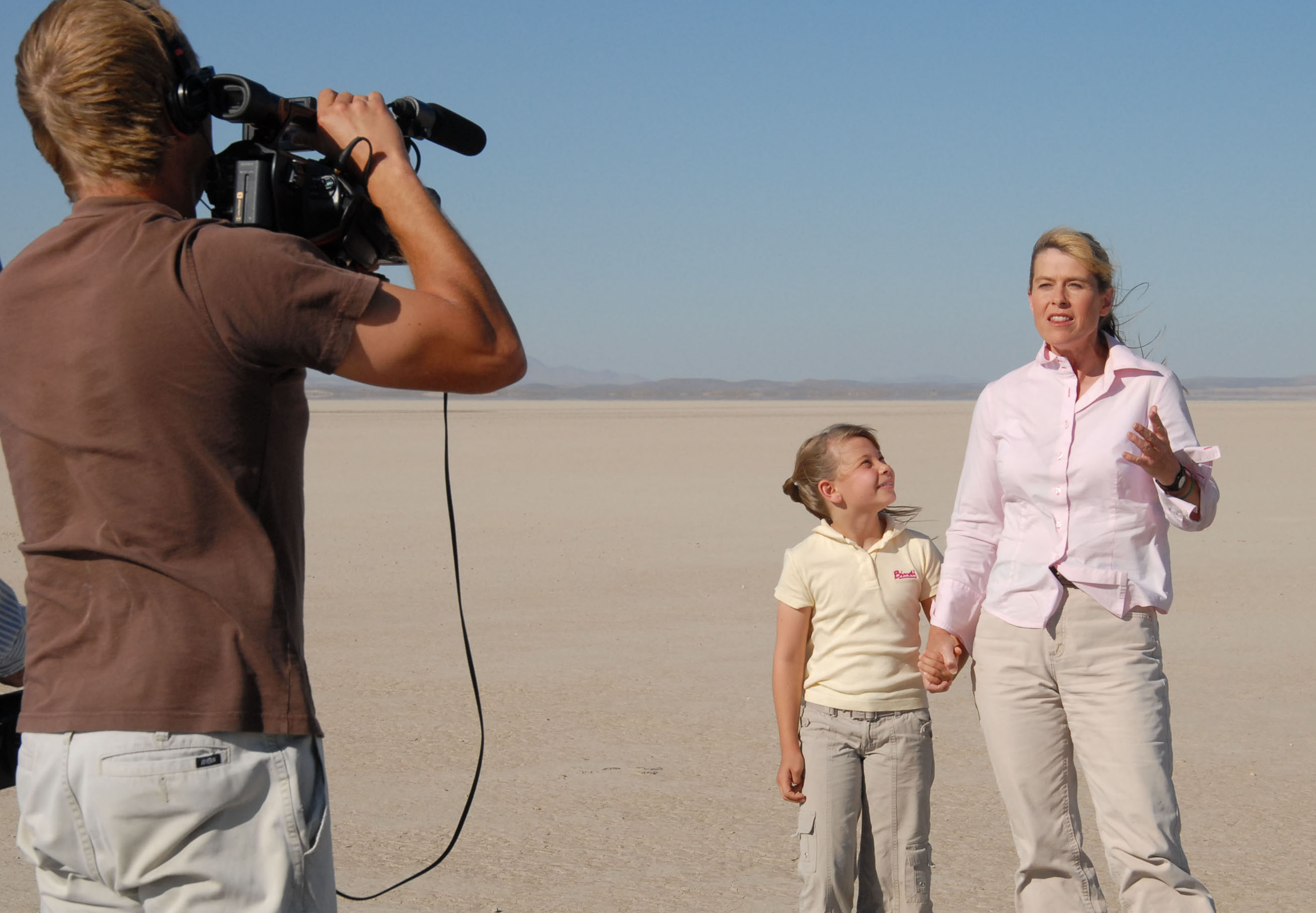 EDWARDS AIR FORCE BASE, Calif. -- Terri and Bindi Irwin visit Edwards on Sept. 6 to film a segment for their television show "Bindi the Jungle Girl." The program airs on the Discovery Kids channel.